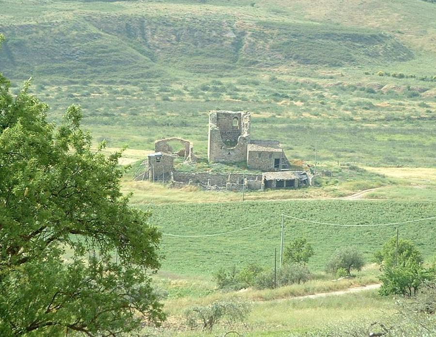 Resuttano (CL), view of Castle from provincial road to Alimena (PA).